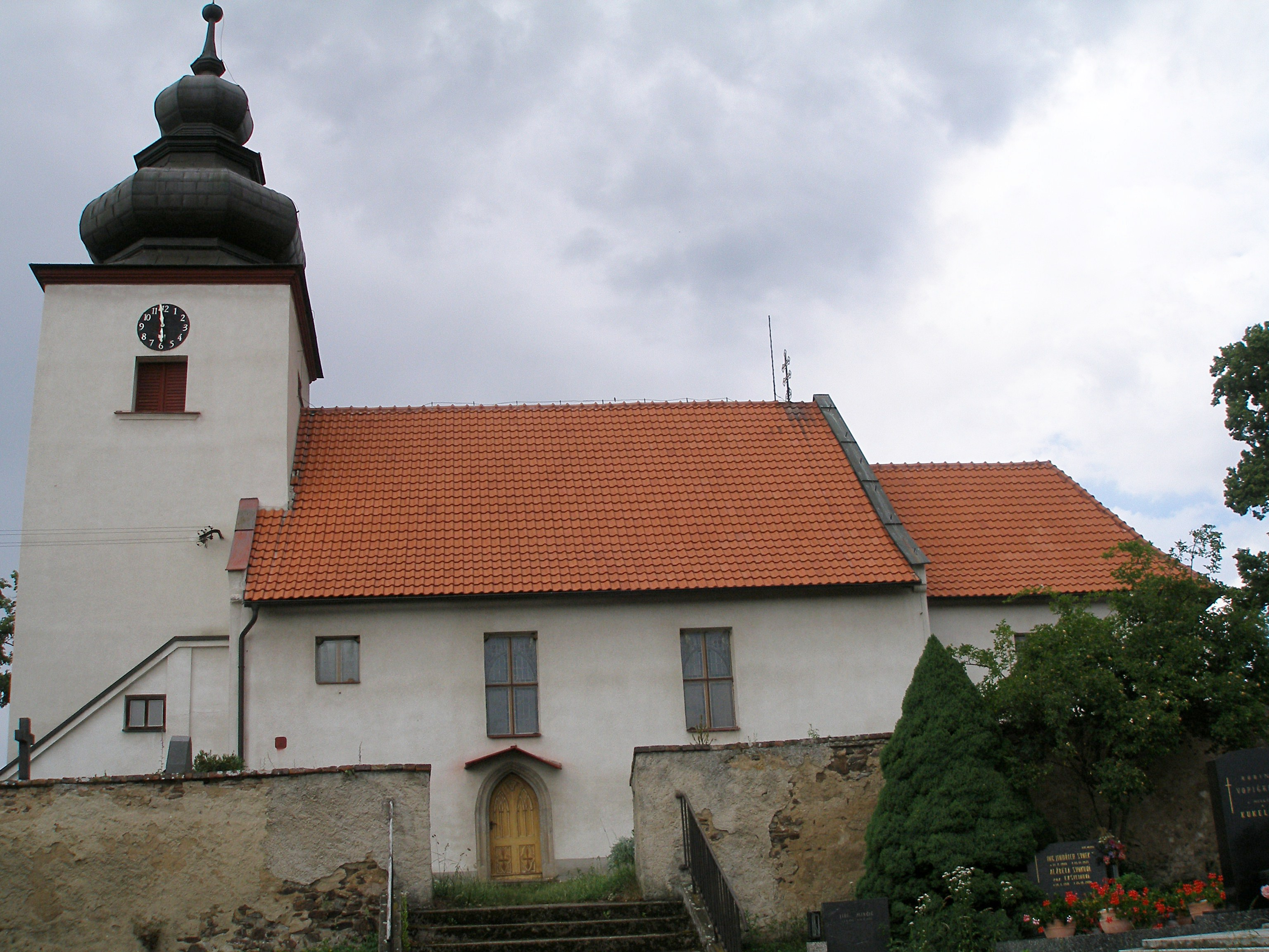 Souhern view of the church of the Visitation in Lašovice (Písek District)